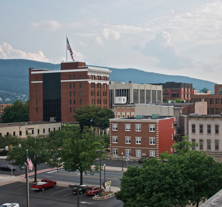 Williamsport Cropped